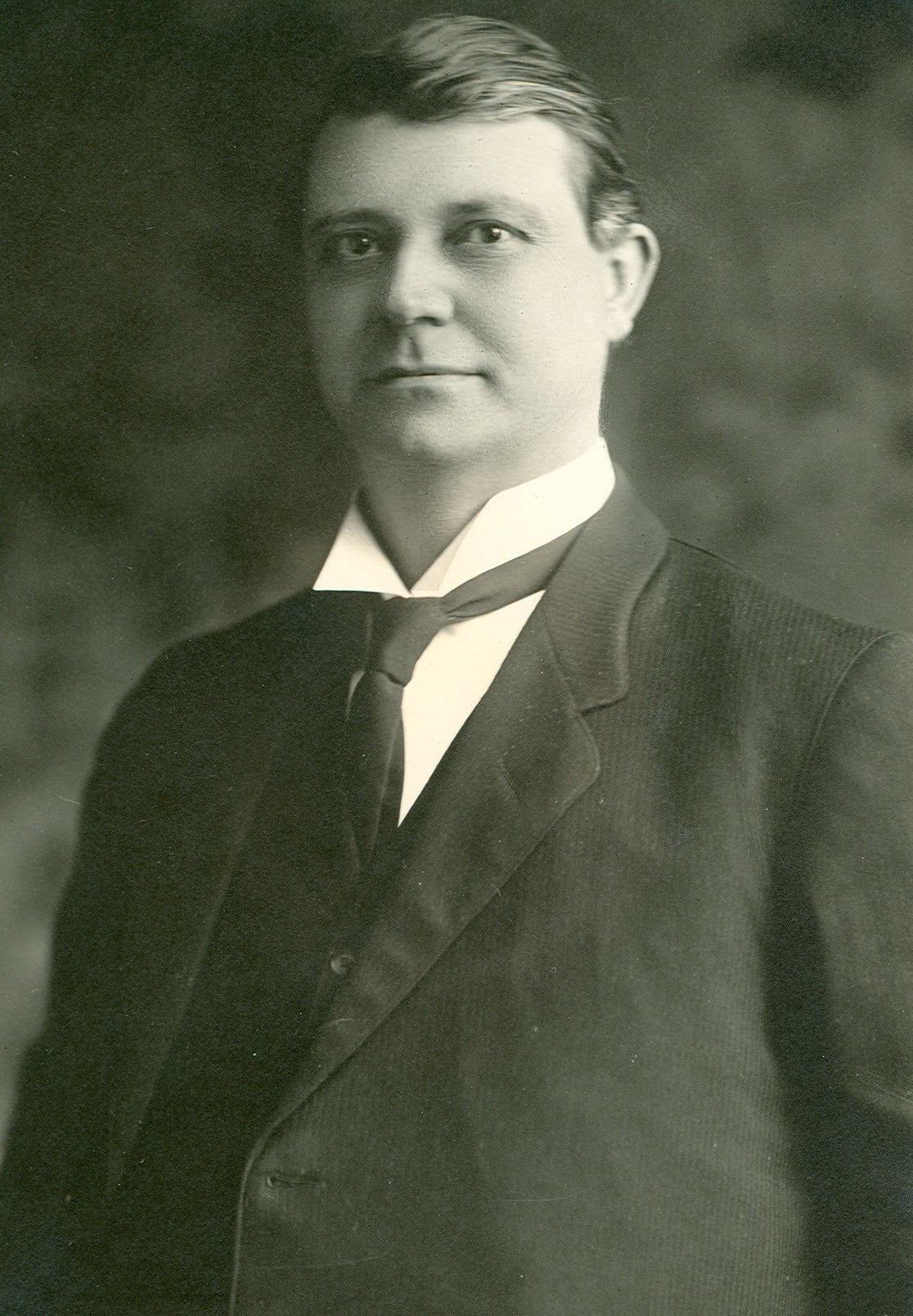 Former congressman Claude Kitchin (1869 - 1923) of North Carolina.